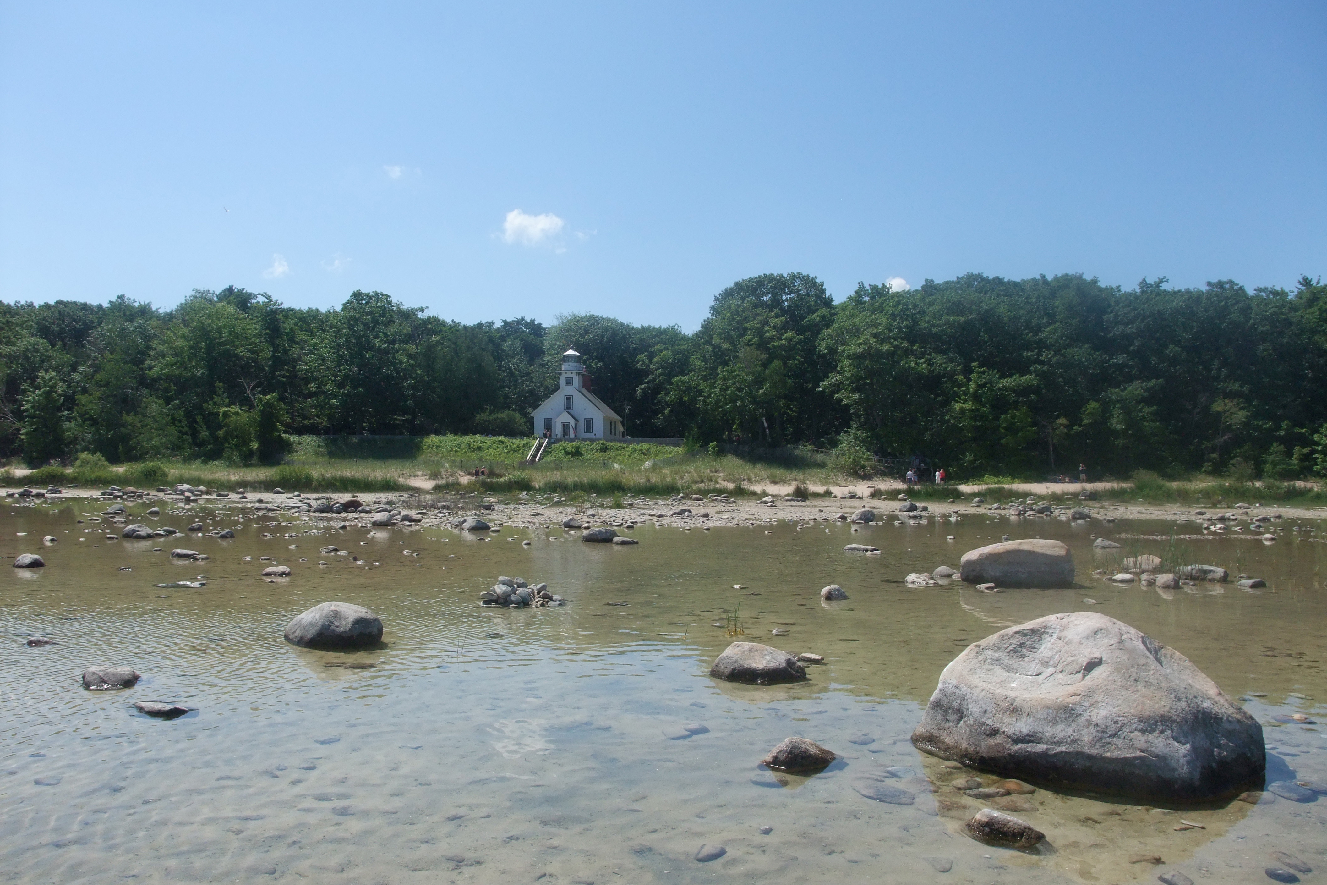 Mission Point Lighthouse, Grand Traverse Bay, Lake Michigan. July 10, 2010. Photographer: C. Darnell.